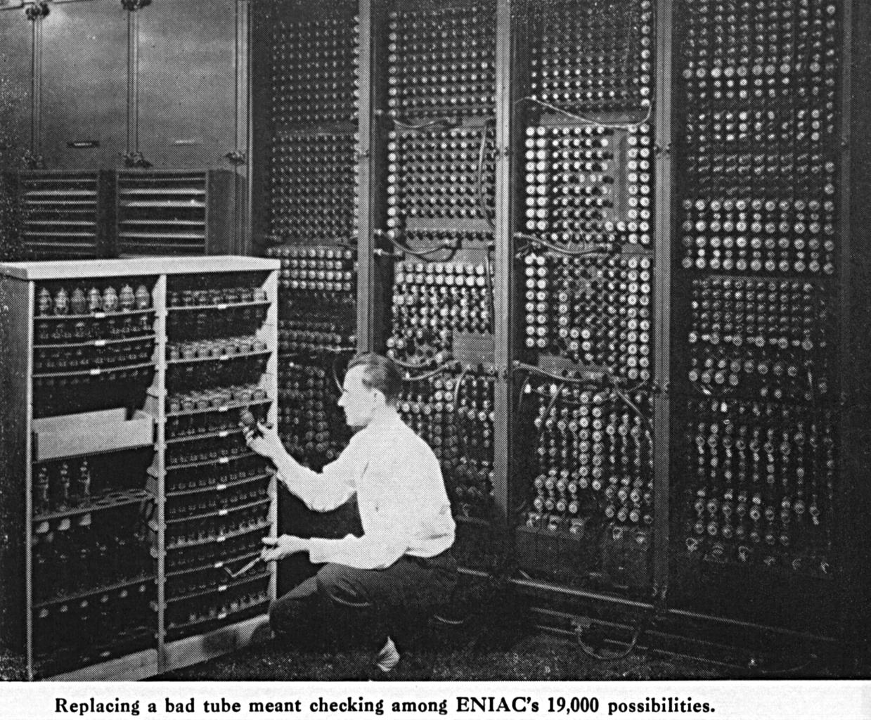 "U.S. Army Photo", from M. Weik, "The ENIAC Story" A technician changes a tube. Caption reads "Replacing a bad tube meant checking among ENIAC's 19,000 possibilities." Center: Possibly John Holberton